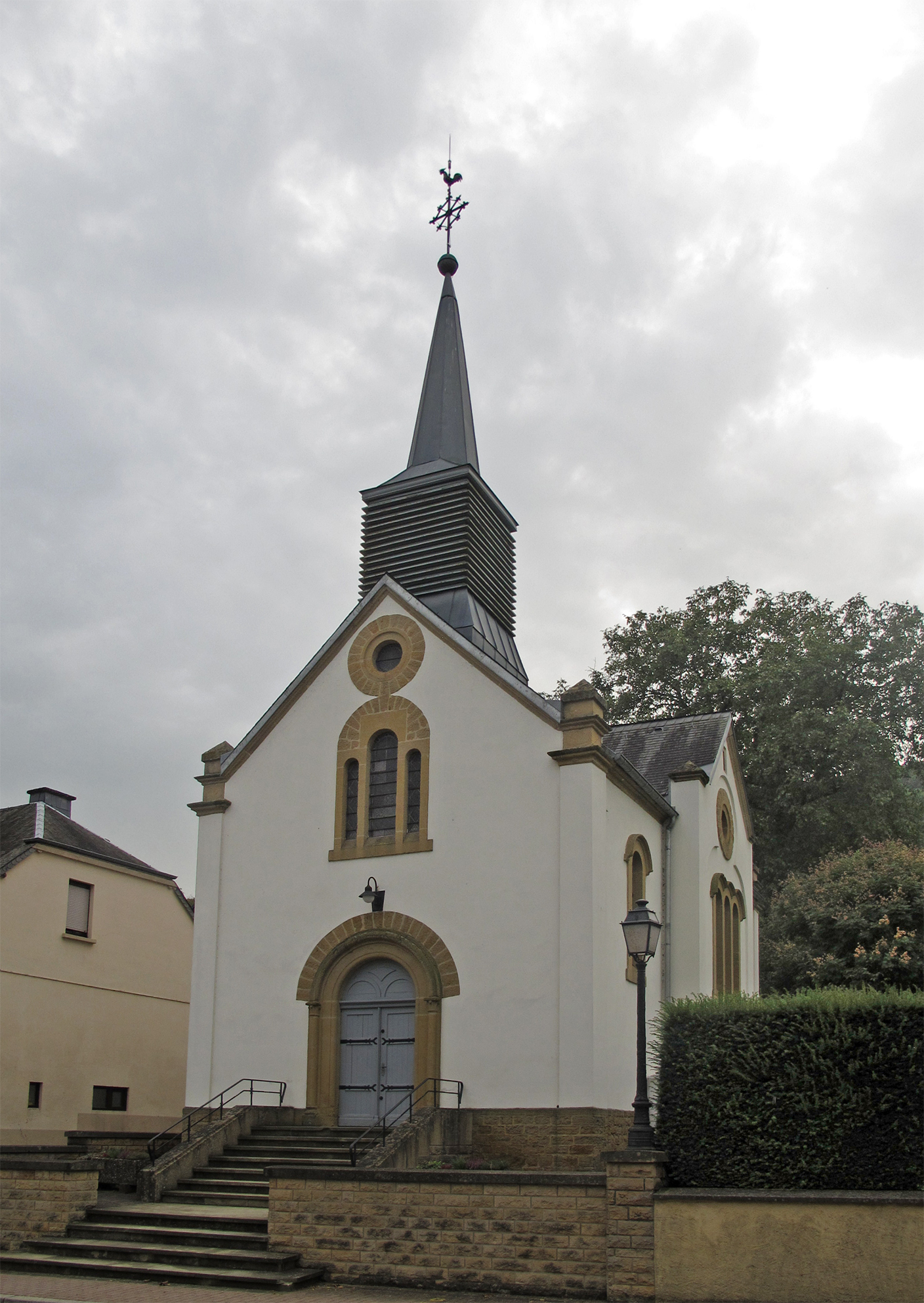 Church of Gosseldange, Luxembourg